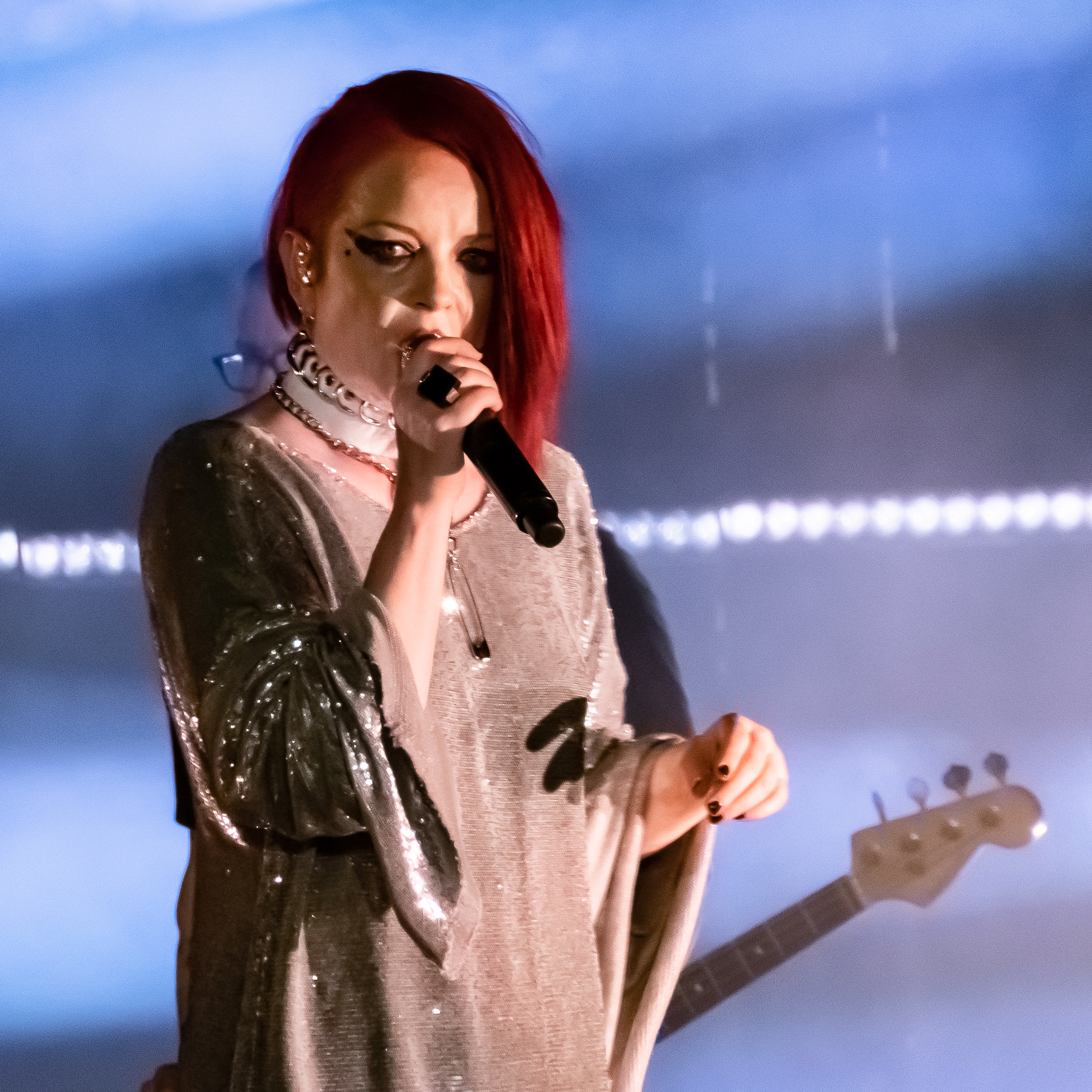 Garbage performing live at the Shrine Auditorium in Los Angeles, California, on Thursday, May 16, 2019.